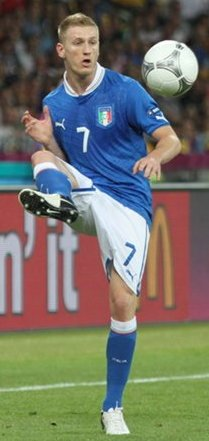 Ignazio Abate and Jordi Alba at Euro 2012 final Spain-Italy